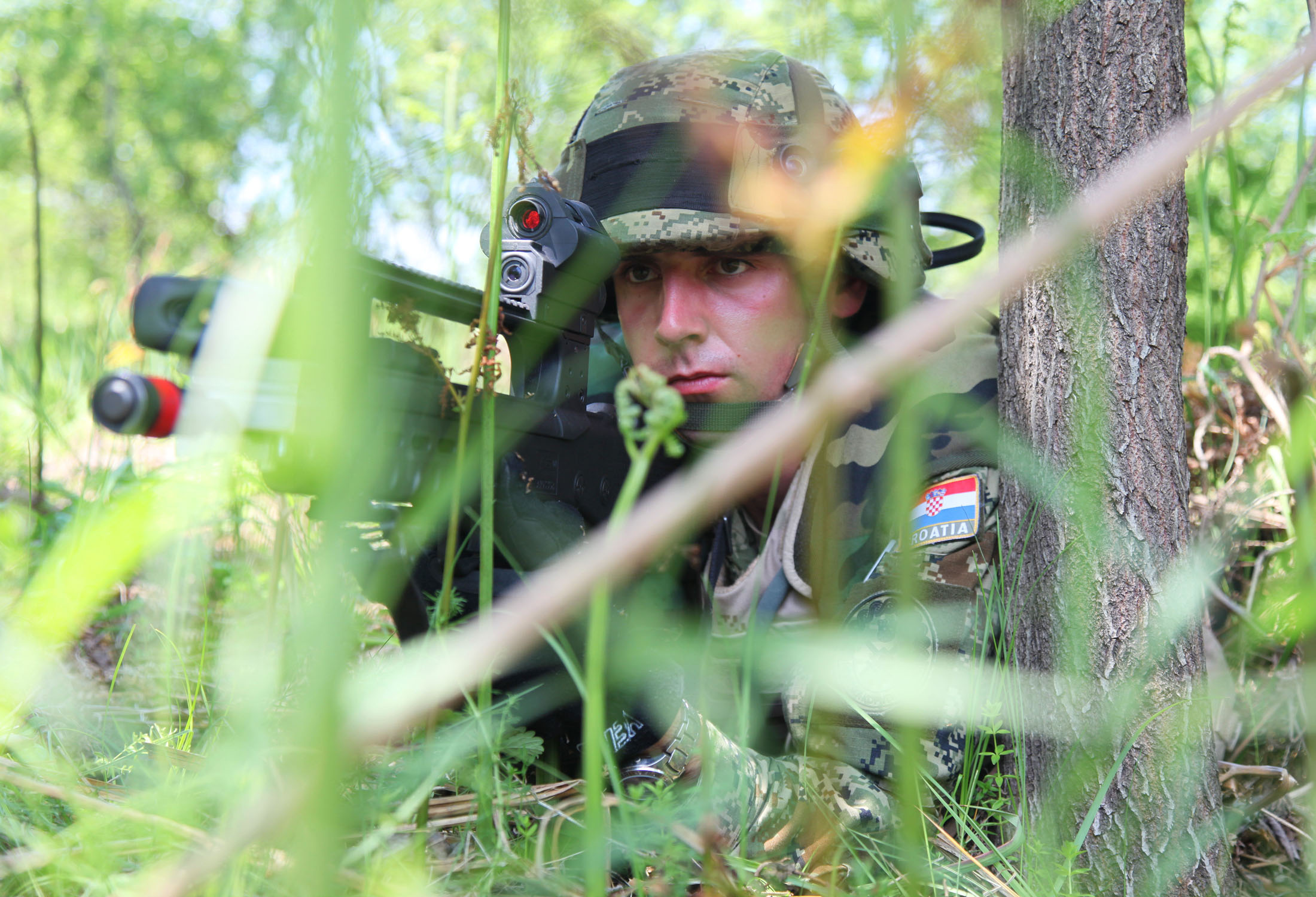 A Croatian soldier from 1st Platoon, 1st Company, Tiger Battalion, takes cover in the grass while he provides security for his platoon as they conduct a movement to contact exercise during the Immediate Response 2012 (IR12) training event held in Slunj, Croatia on Tuesday, May 29, 2012. IR12 is a multinational tactical field training exercise that will involve more than 700 personnel primarily from the U.S. Army Europe’s 2nd Calvary Regiment and Croatian armed forces, with contingents from Albania, Bosnia-Herzegovina, Montenegro and Slovenia. Macedonia and Serbia will send observers to the exercise. The exercise is a part of USEUCOM's joint training and exercise program designed to enhance joint and combined interoperability between the U.S. Army, U.S. Air Force, Croatian Armed Forces and partner nations, and will help prepare participants to operate successfully in a joint, multinational, interagency, integrated environment. (U.S. Army photo by SPC Lorenzo Ware/Released)